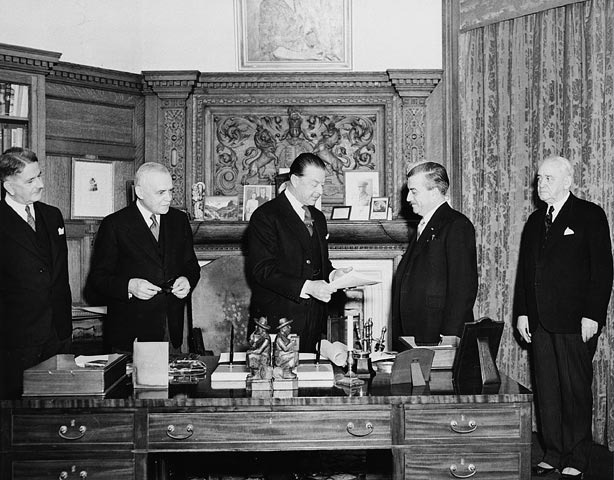 Governor General of Canada Harold Alexander, 1st Earl Alexander of Tunis receives the bill concerning the terms of the union of Newfoundland with Canada.